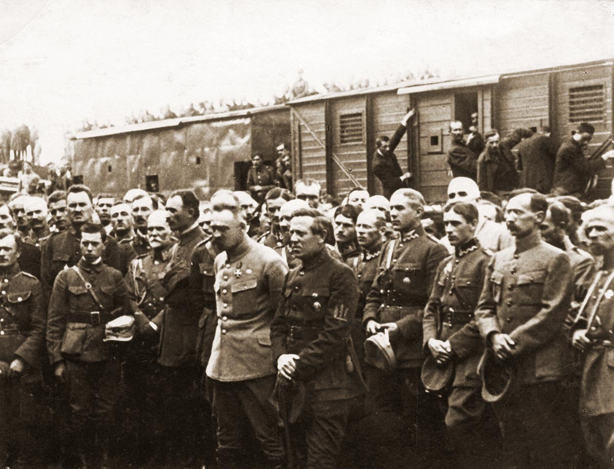 Józef Piłsudski, Symon Petlura, Polish and Ukrainian officers. Polish-Soviet War, Stanisławów, August 1920.